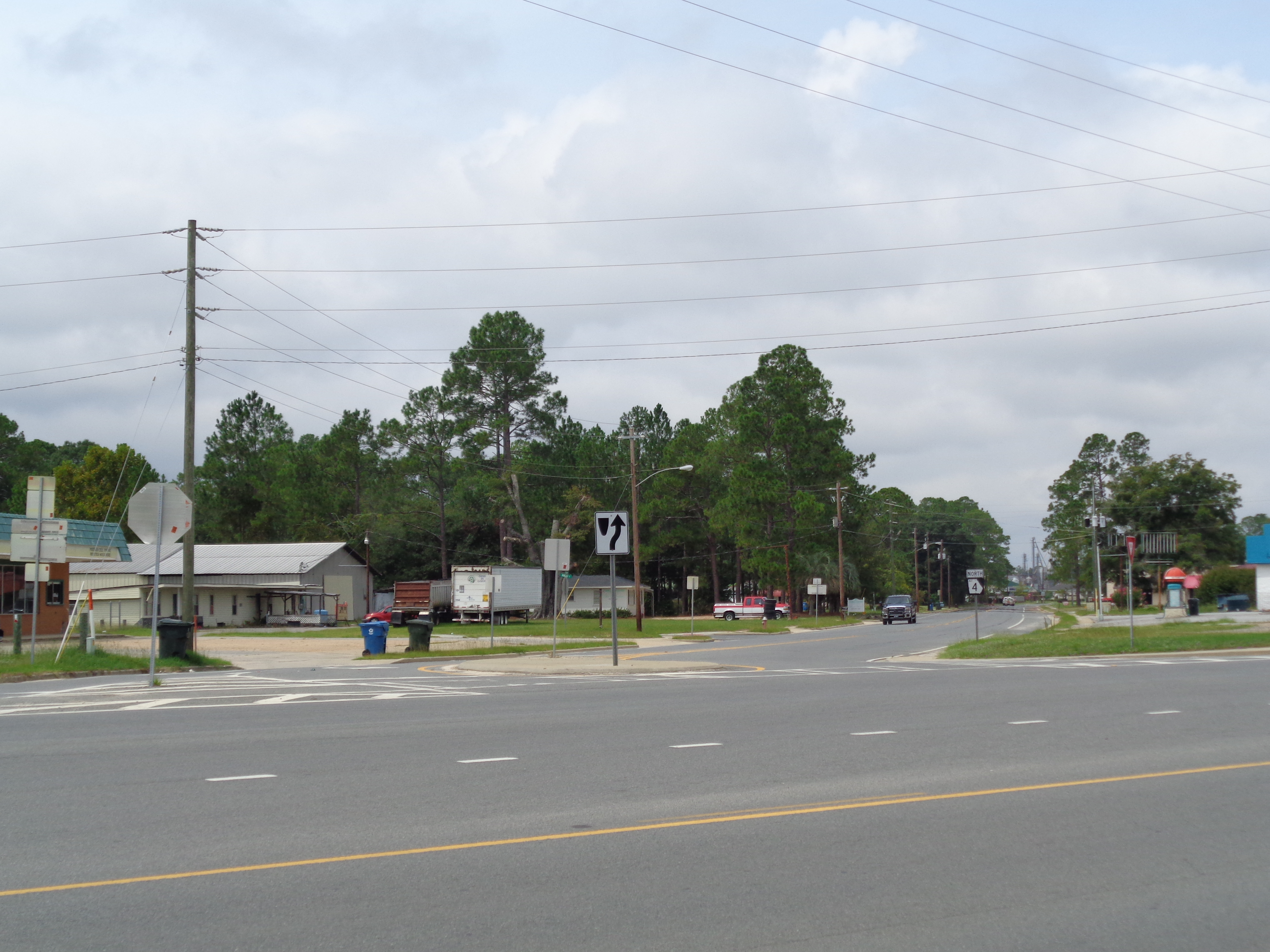 GA4 Alternate, southern terminus at US1/US23, Alma, Bacon County, Georgia